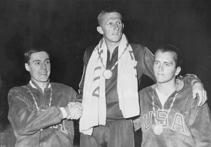 Frank McKinney, David Theile, Bob Bennett, Rome Olympics